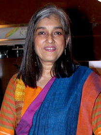 Ratna Pathak at premiere of LWS at Mami 2016 with KSS